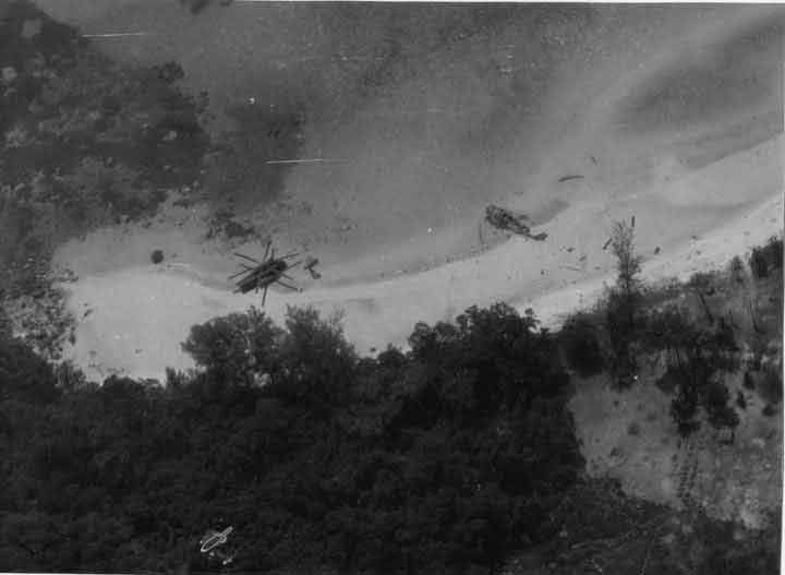 Two crashed USAF helicopters on Koh Tang